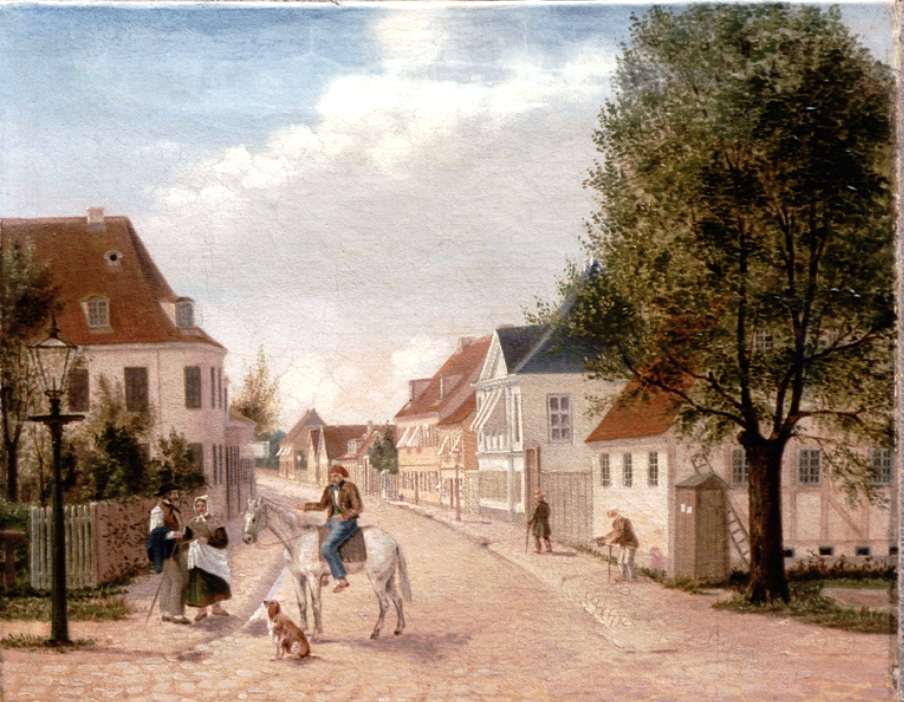 Smallegade viewed from the orner of Allégade in Frederiksberg, Copenhagen, Denmark